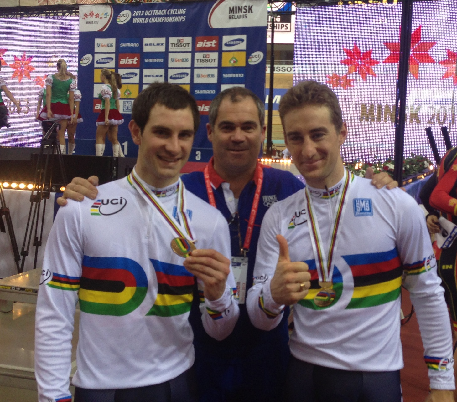 Madison World Champions 2013 BRISSE KNEISKY & their coach Herve DAGORNE